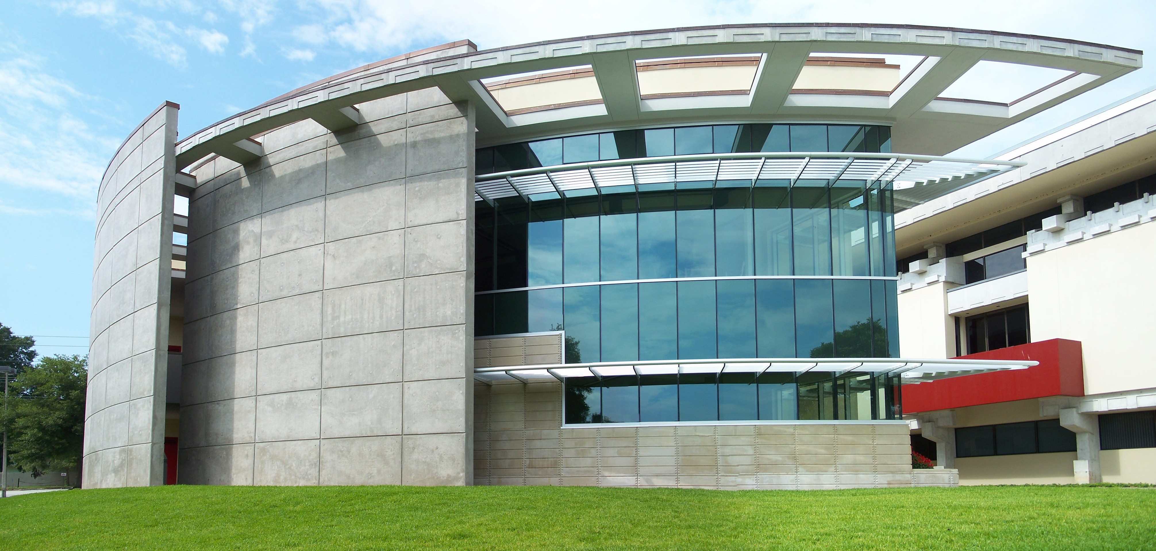 Lakeland: Florida Southern College: McKay Archives Center